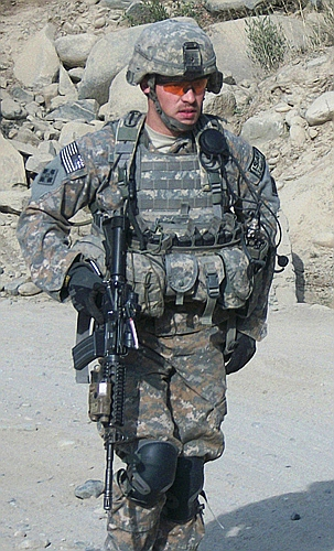 U.S. Army Staff Sgt. Clinton L. Romesha on a mission in Afghanistan in 2009. One of his fellow soldiers credits him with saving the lives of everyone assigned to Combat Outpost Keating on October 3, 2009, after Romesha's actions helped repel a massive enemy assault. He continually exposed himself to enemy fire and his courage, decisiveness and utter calm inspired his soldiers to keep fighting. Romesha received the Medal of Honor at a White House ceremony on February 11, 2013.